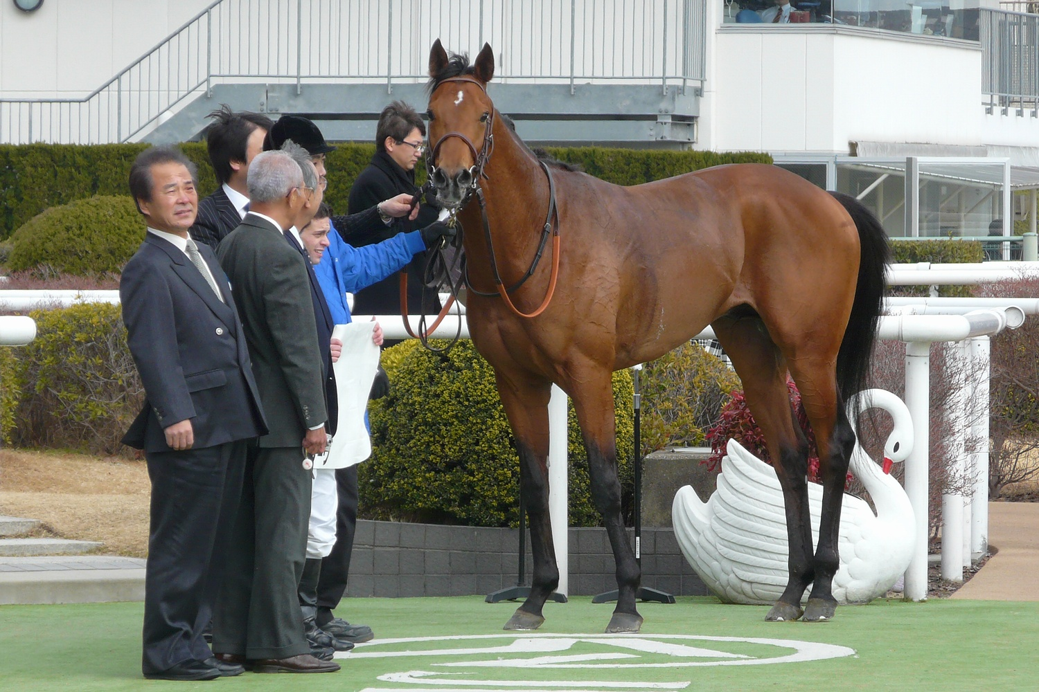 Tosen-reve20110212